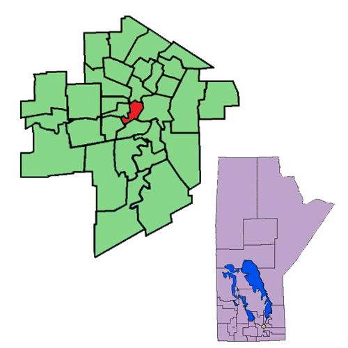 The 1999-2011 boundaries for the Fort Rouge electoral district highlighted in red